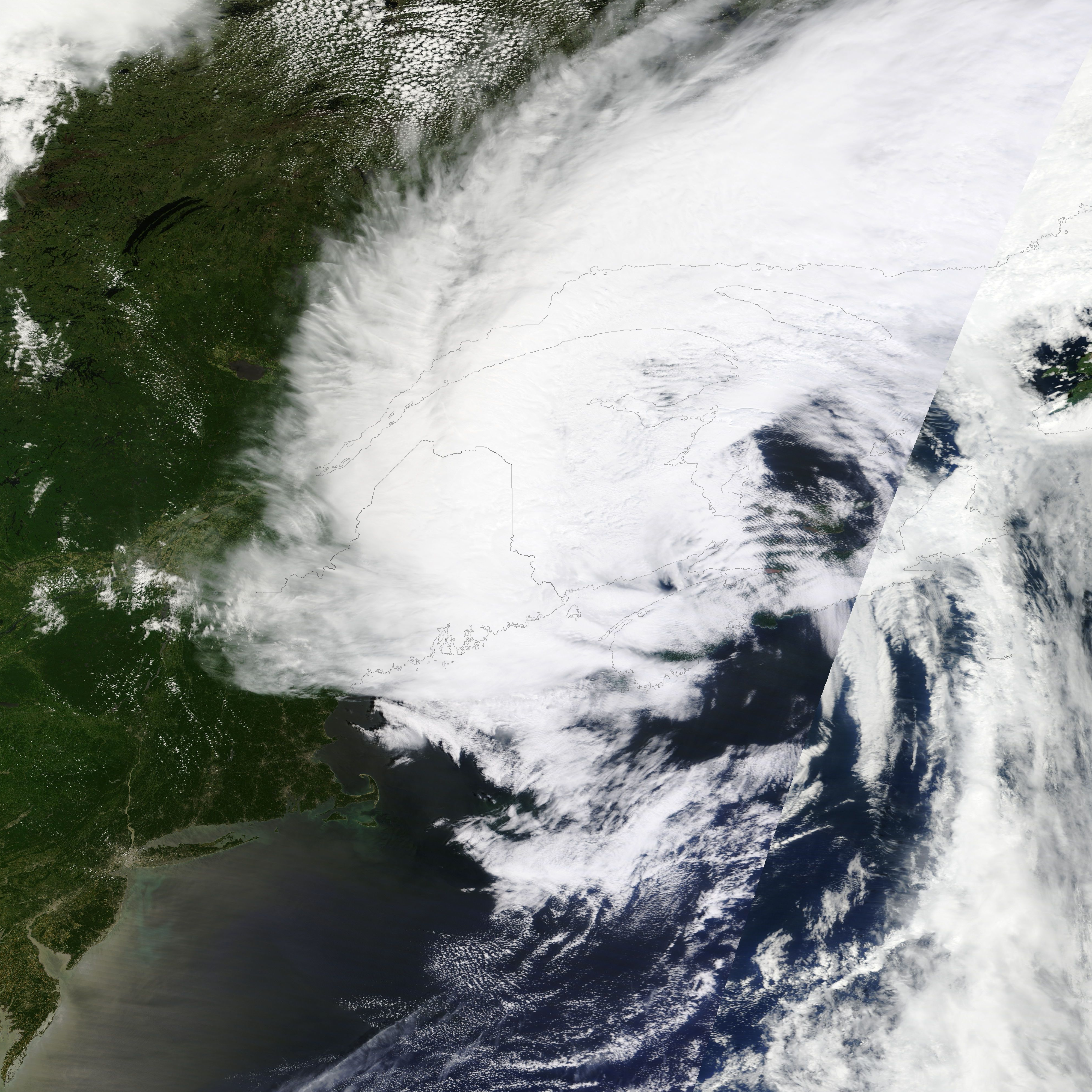 Post-Tropical Cyclone Arthur after completing its transition to an extratropical cyclone